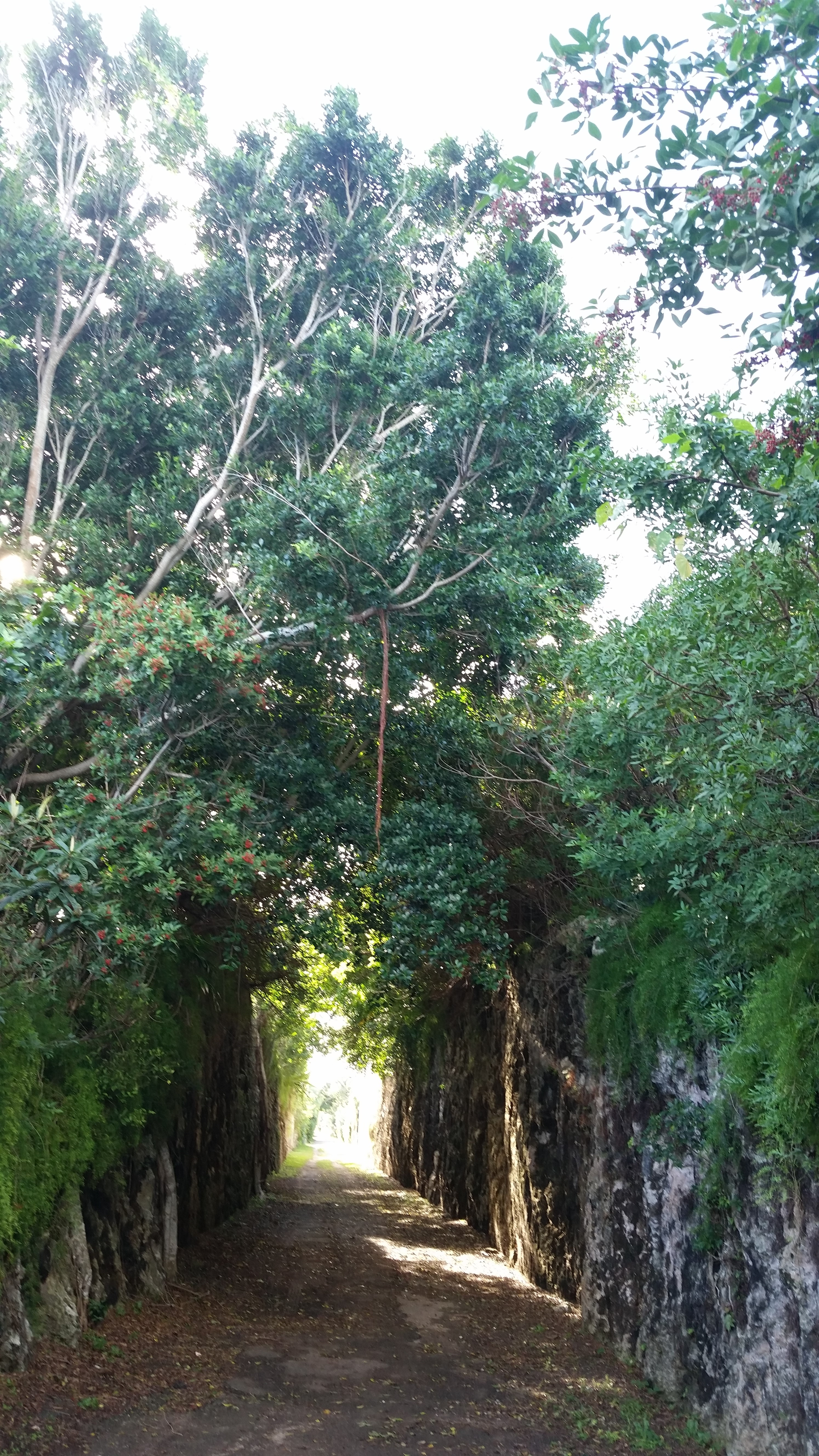 Bermuda Railway near Somerset Bridge